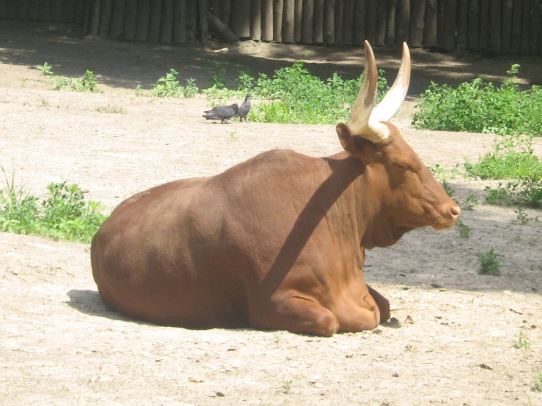 Watussi in Kiev zoo